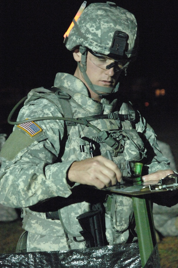 Sgt. Cole Joines, National Capital Region, is one of 24 warriors competing Sept. 30 at the night urban warfare orienteering course during the 2009 Department of the Army Best Warrior Competition at Fort Lee, Va.